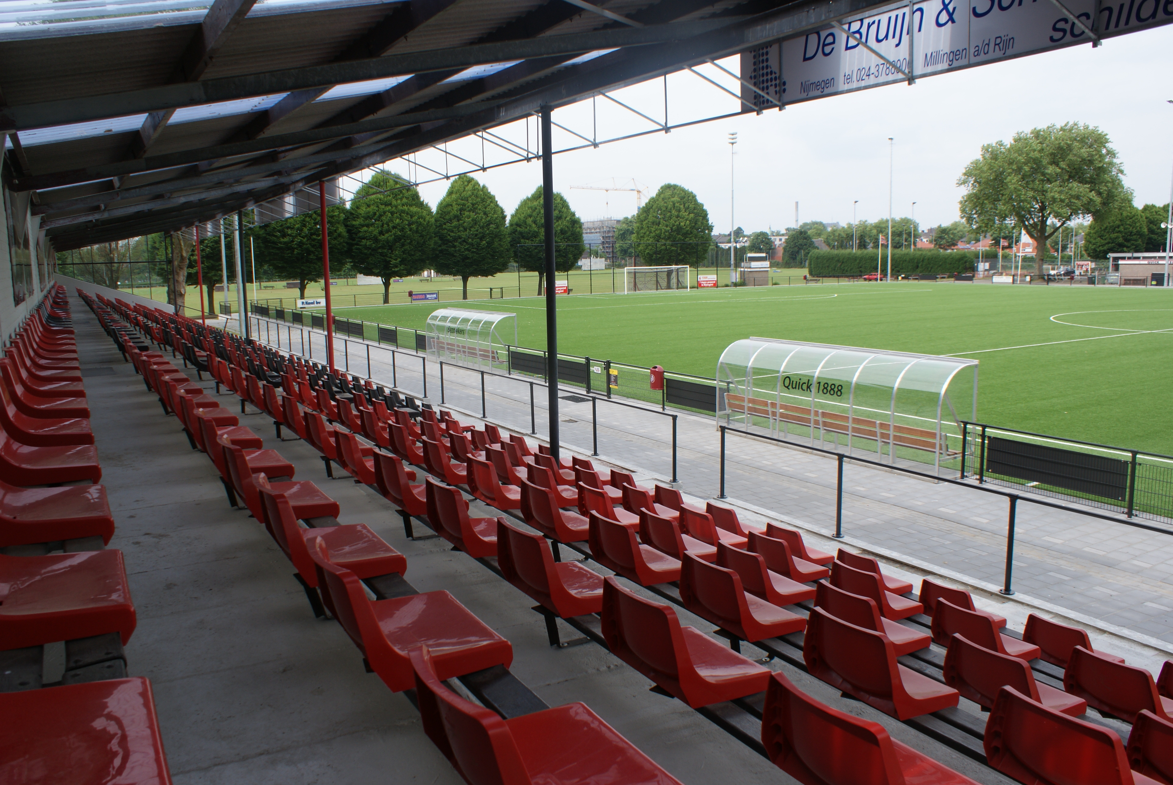 Stadion De Dennen Quick 1888